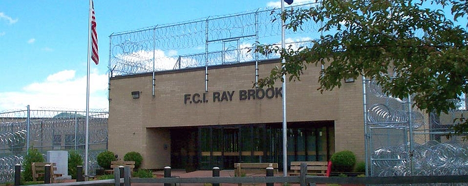 FCI.RAY.BROOK